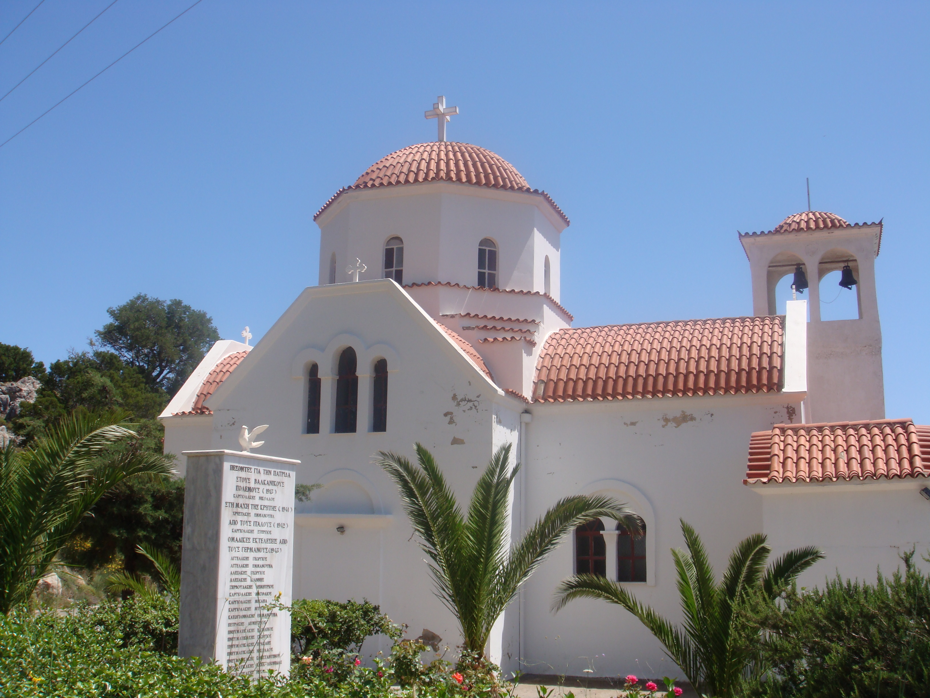 Church of Agios Dimitrios, in Vahos, Iraklion Prefecture.